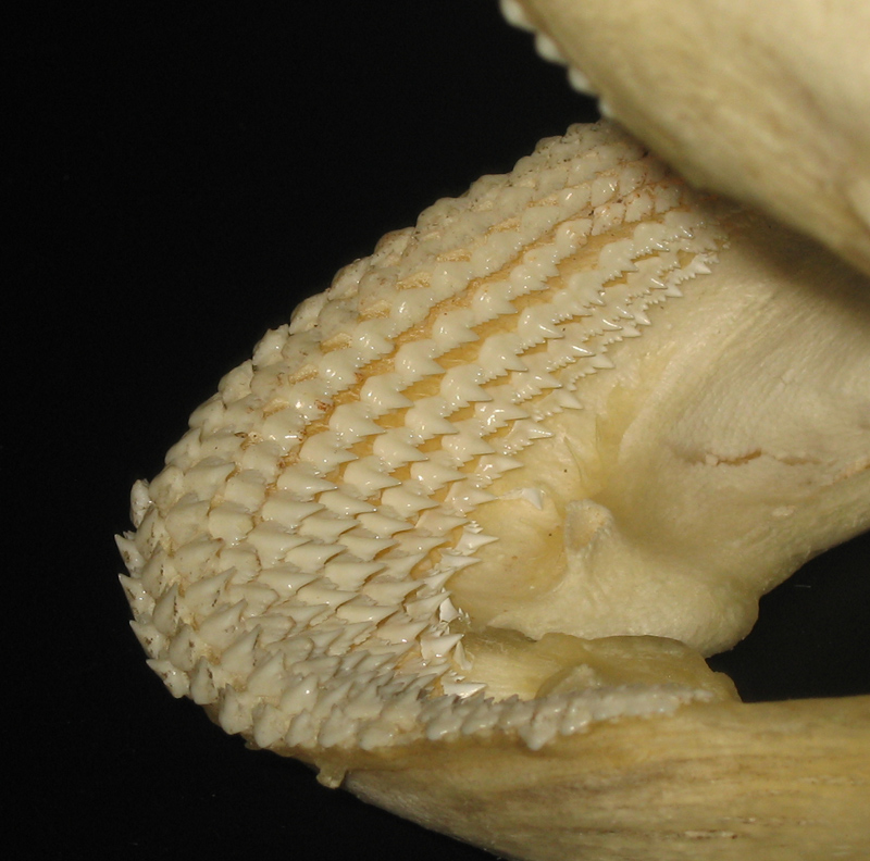 Ginglymostoma cirratum (Nurse shark) teeth.